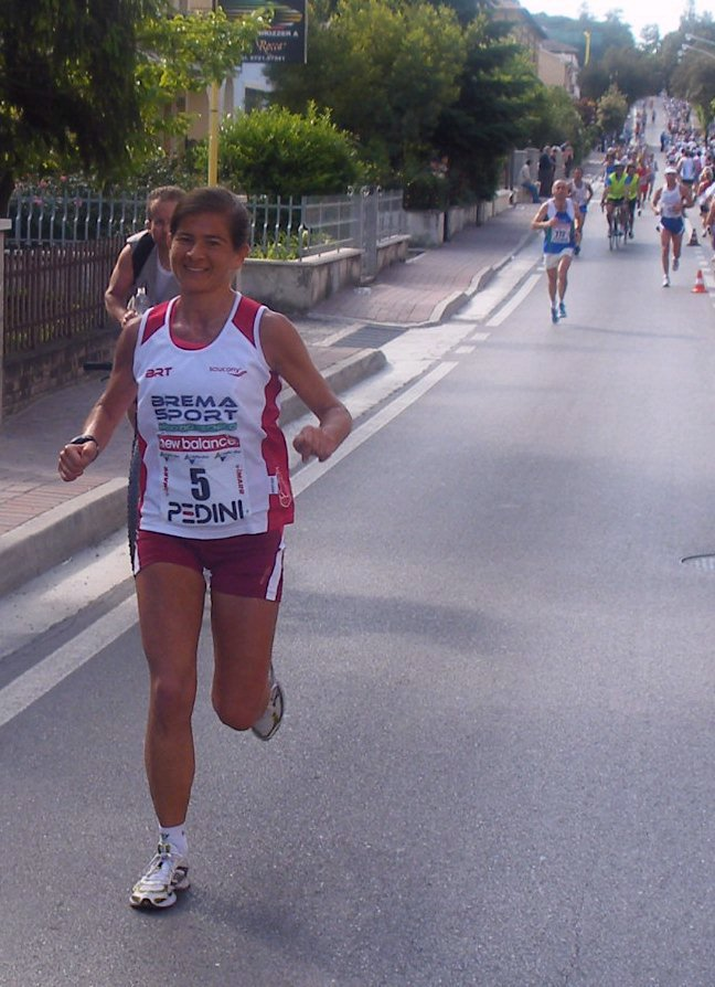 Monica Carlin - ColleMar-athon